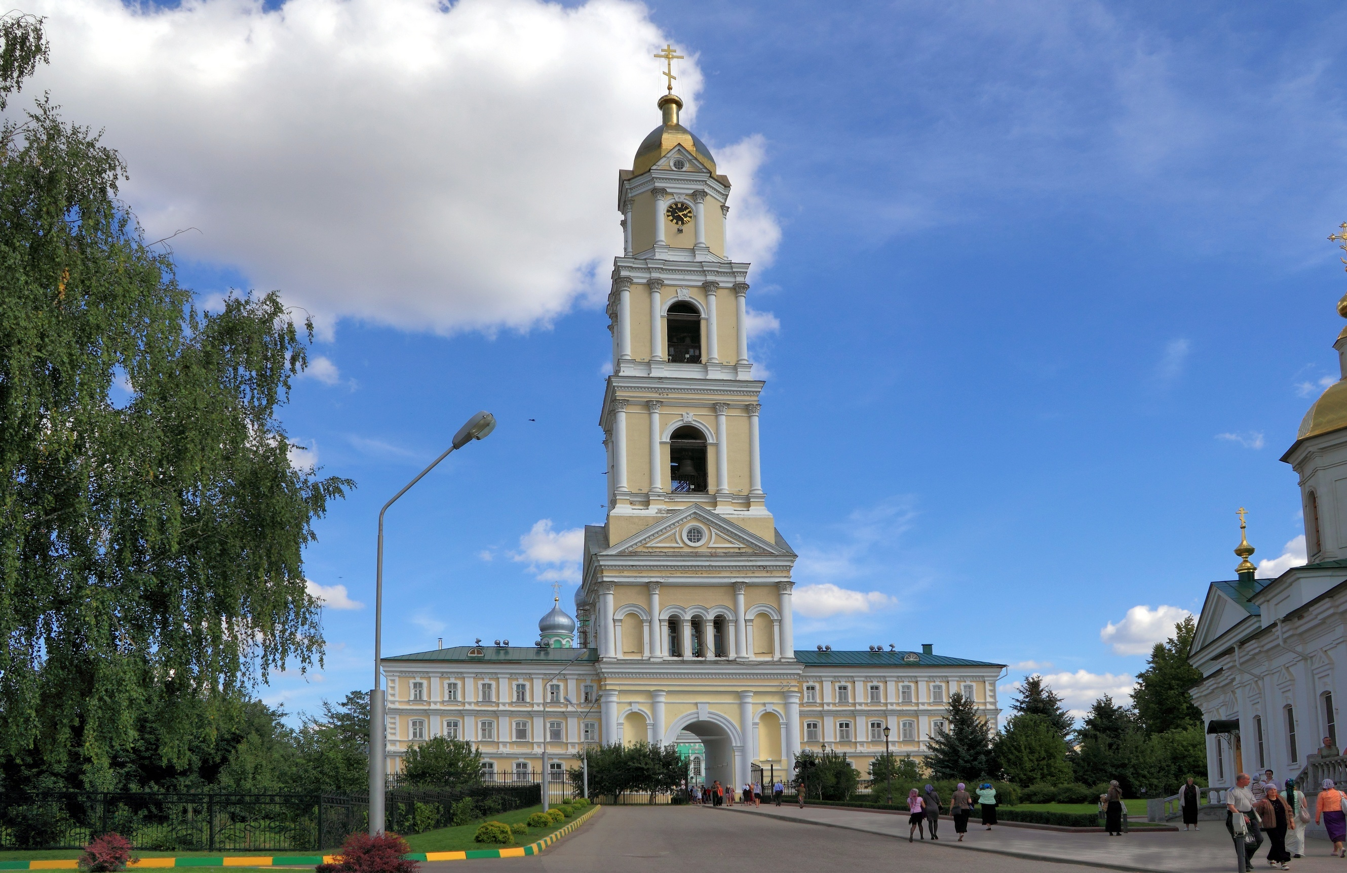 Diveyevo. Serafimo-Diveevsky Monastery. Bell tower